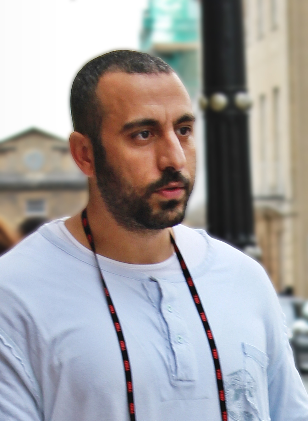 Ahmad Al-Shukairy